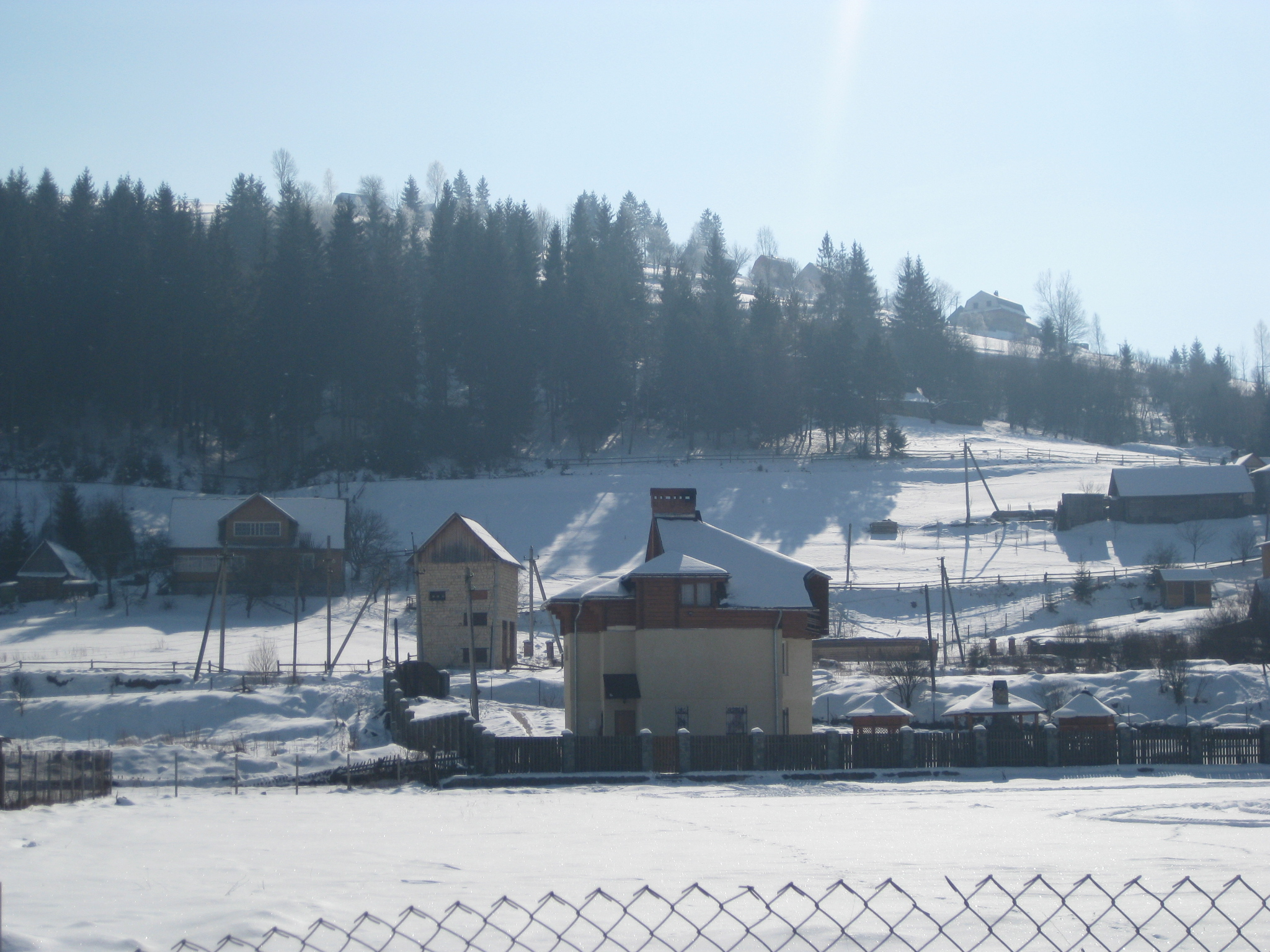 Slavs`ke